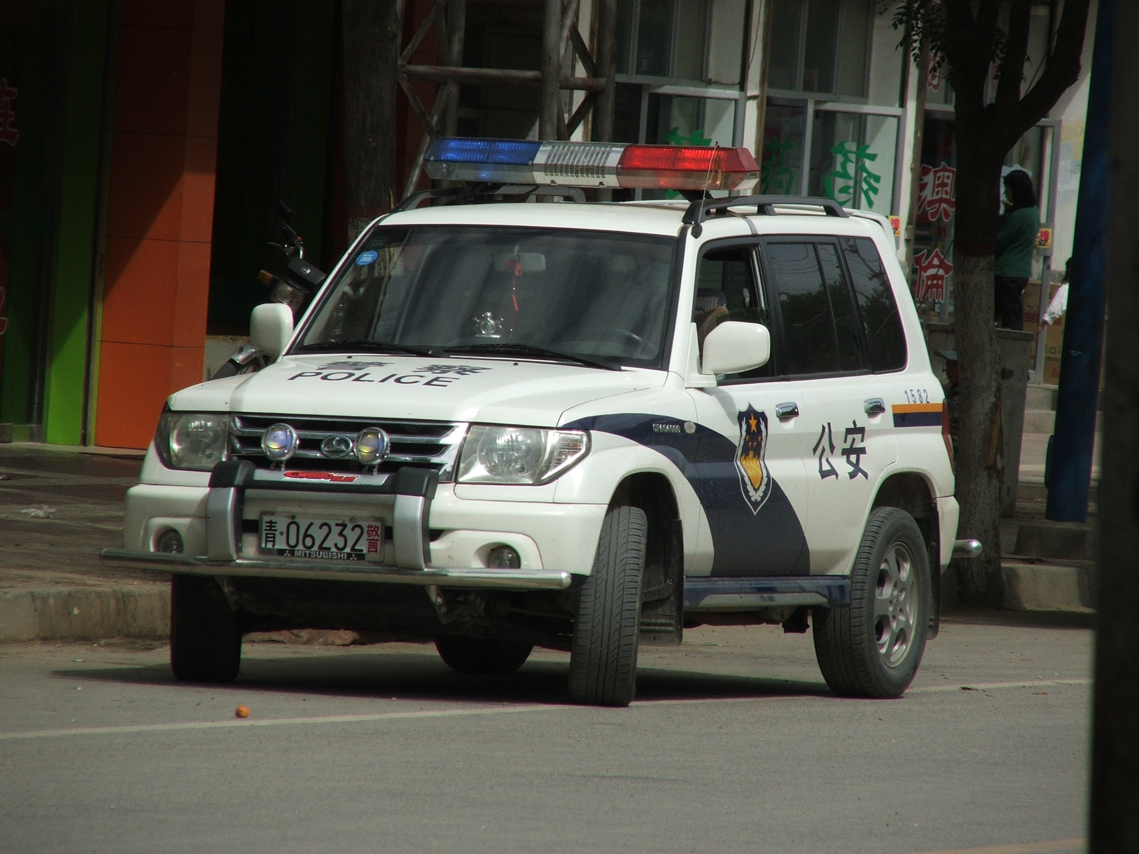 Chinese Police vehicle.